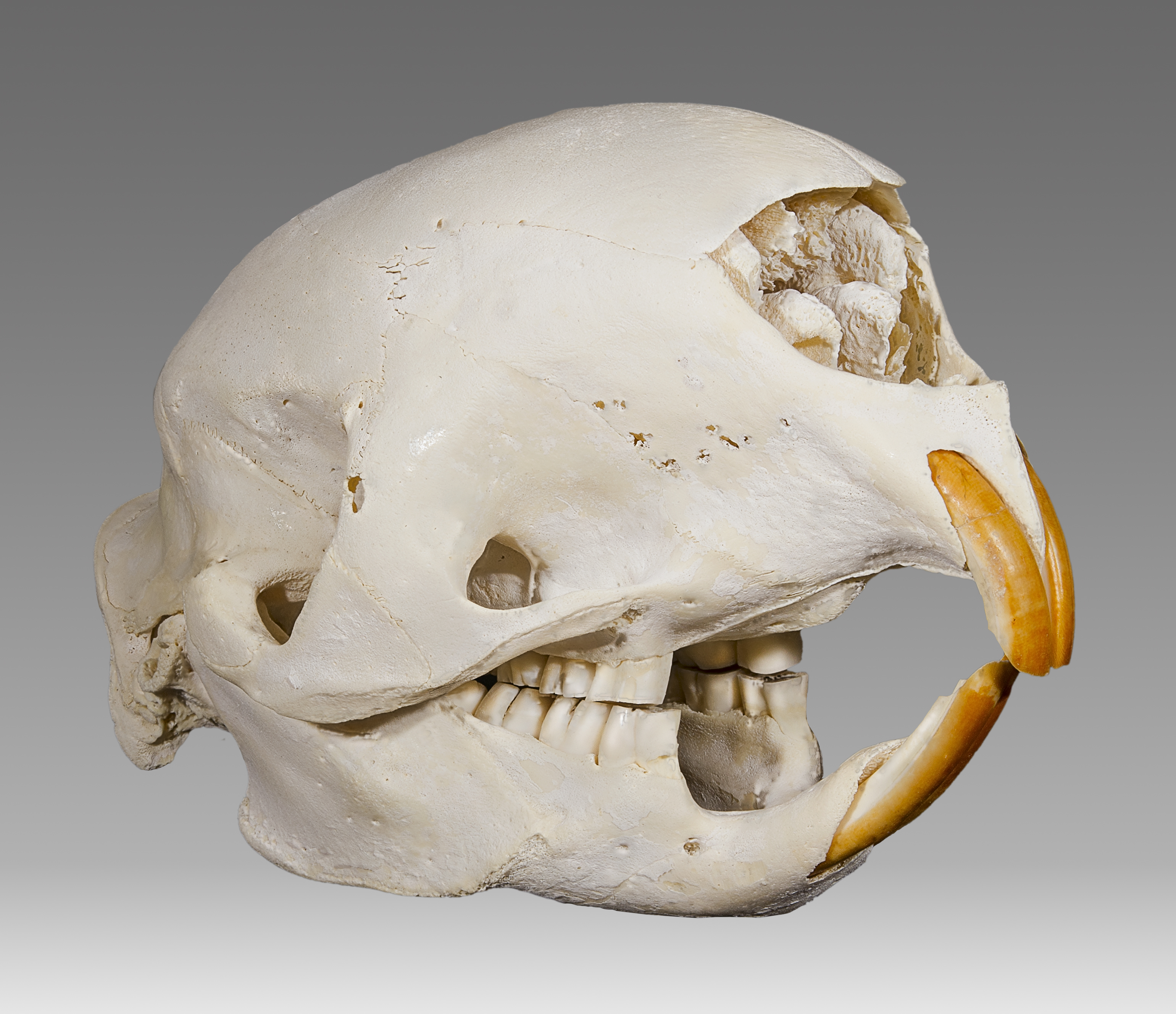 Crested Porcupine ( Hystrix cristata ) Size : 13 x 7 x 9 cm cm